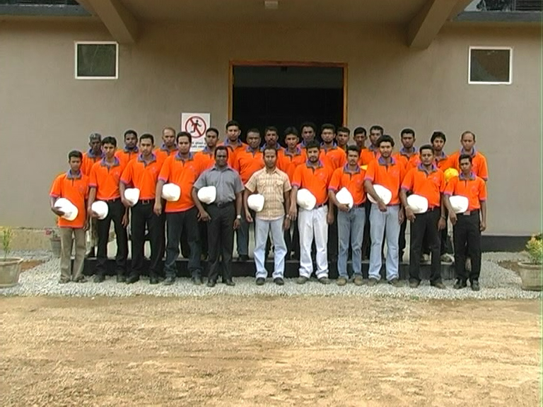 Project Team of Vallibel